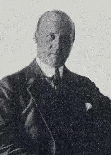 Danish chess master Jorgen Moeller (1873-1941)